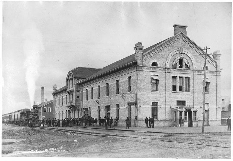 C.P.R. station, Winnipeg, Manitoba, Canada, 1884